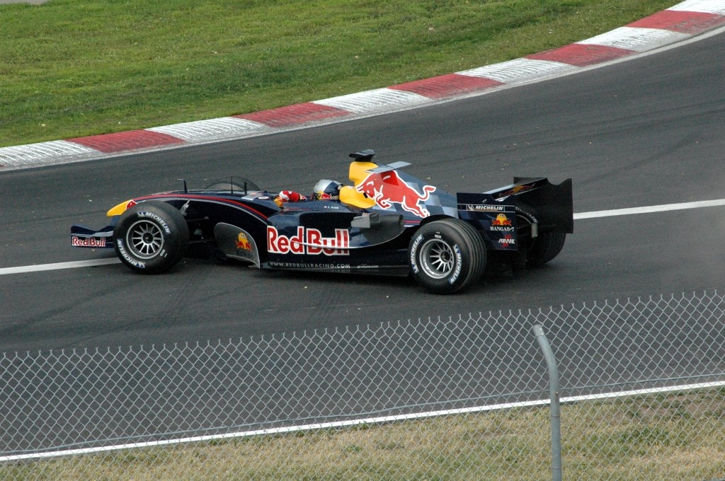 Christian Klien spins his Red Bull at the 2005 Canadian Grand Prix.